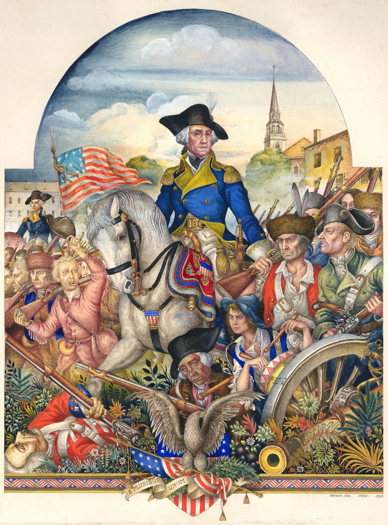 Szyk created the 38 original watercolor paintings of the George Washington and His Times portfolio between 1930 and 1931. The works were exhibited at the 1931 French Exposition in Paris. In 1935, the President of Poland, Ignacy Moscicki, purchased the original miniatures from Szyk for 15,000 Polish sloty (US$2,848.50) and presented them to President Franklin D. Roosevelt. The paintings hung in The White House until 1941. They reside today in the FDR Library in Hyde Park, New York.